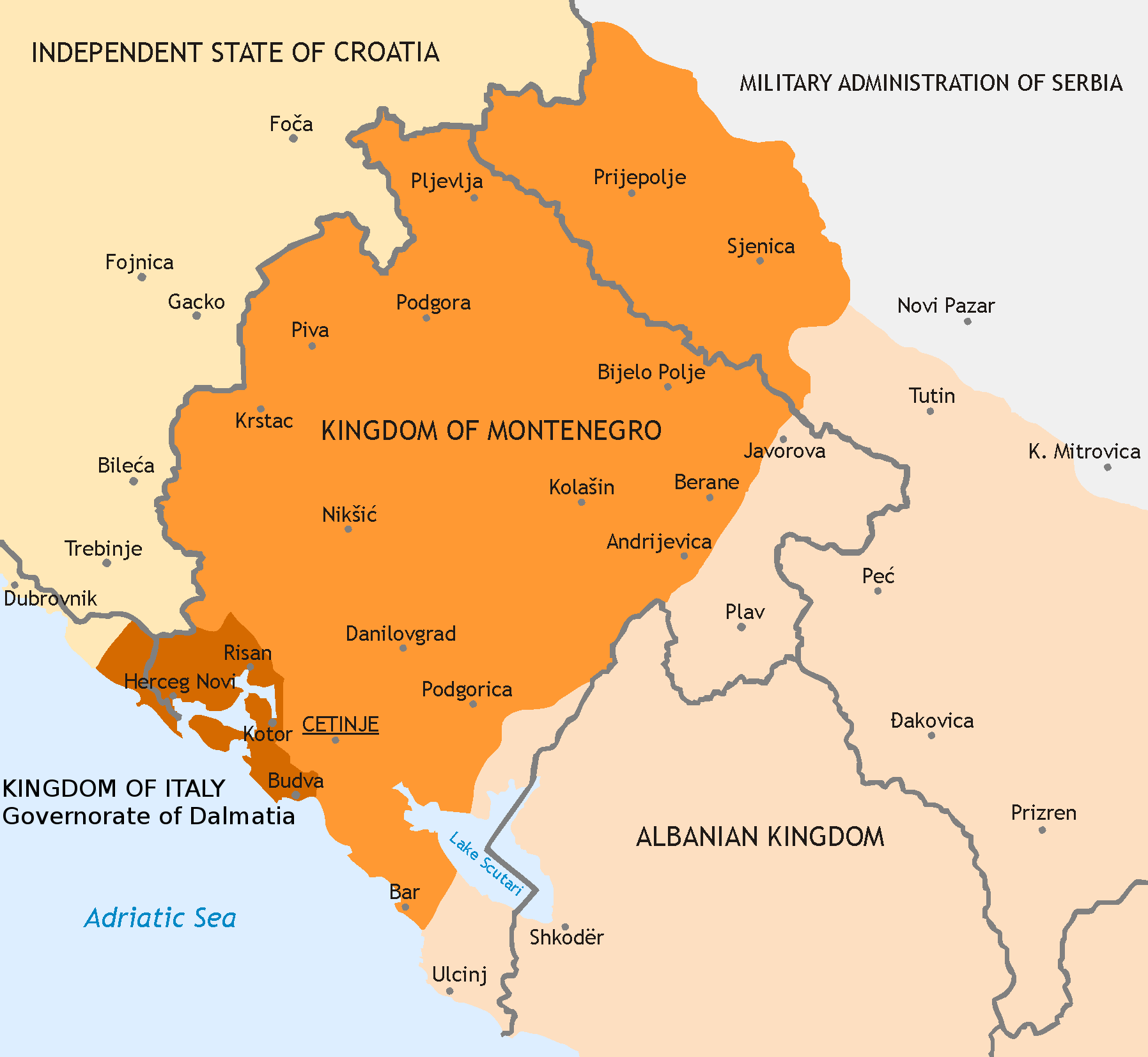 Map of Kingdom of Montenegro during WWII and present day borders